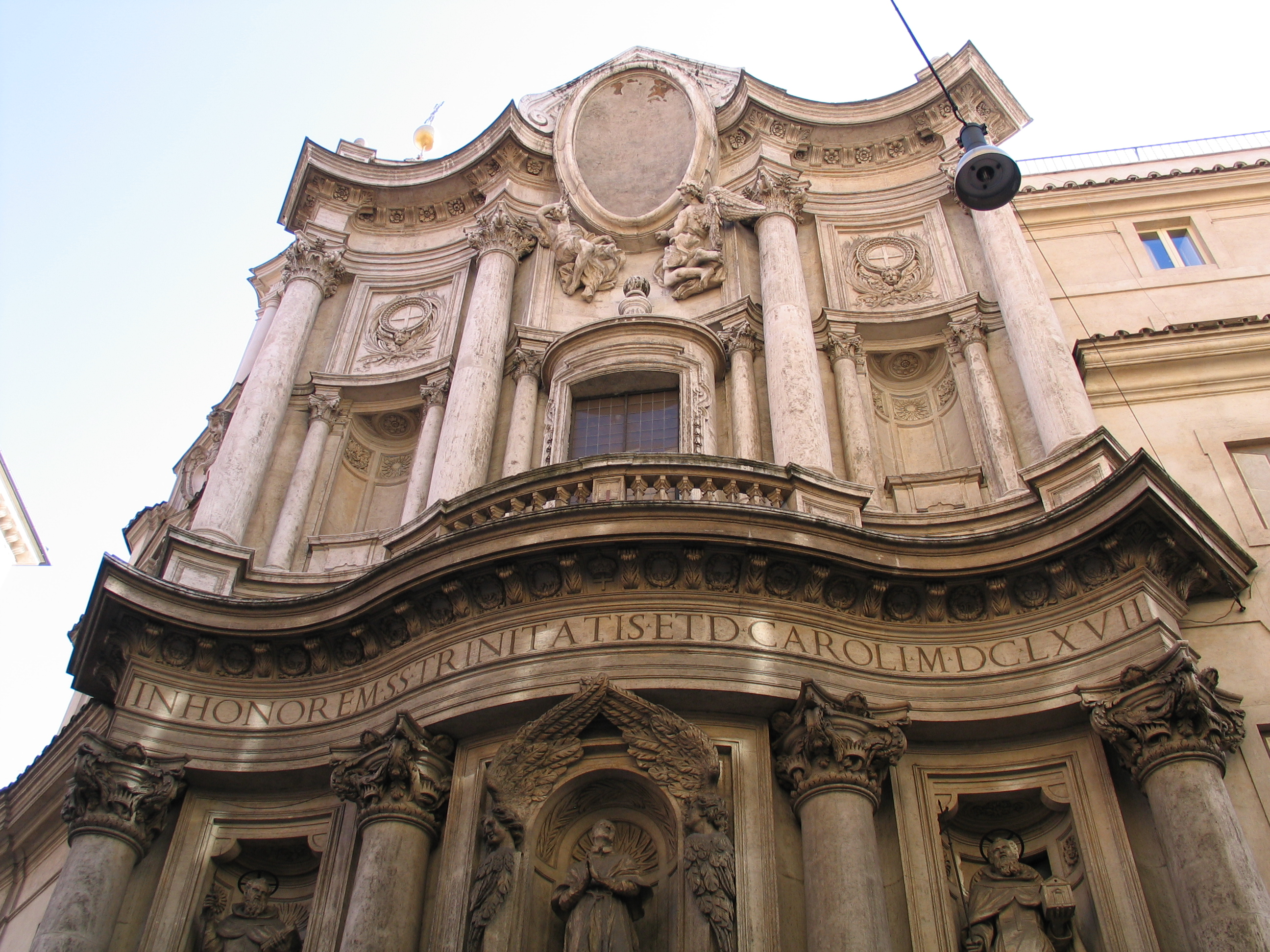 Façade with the lantern and the medallion